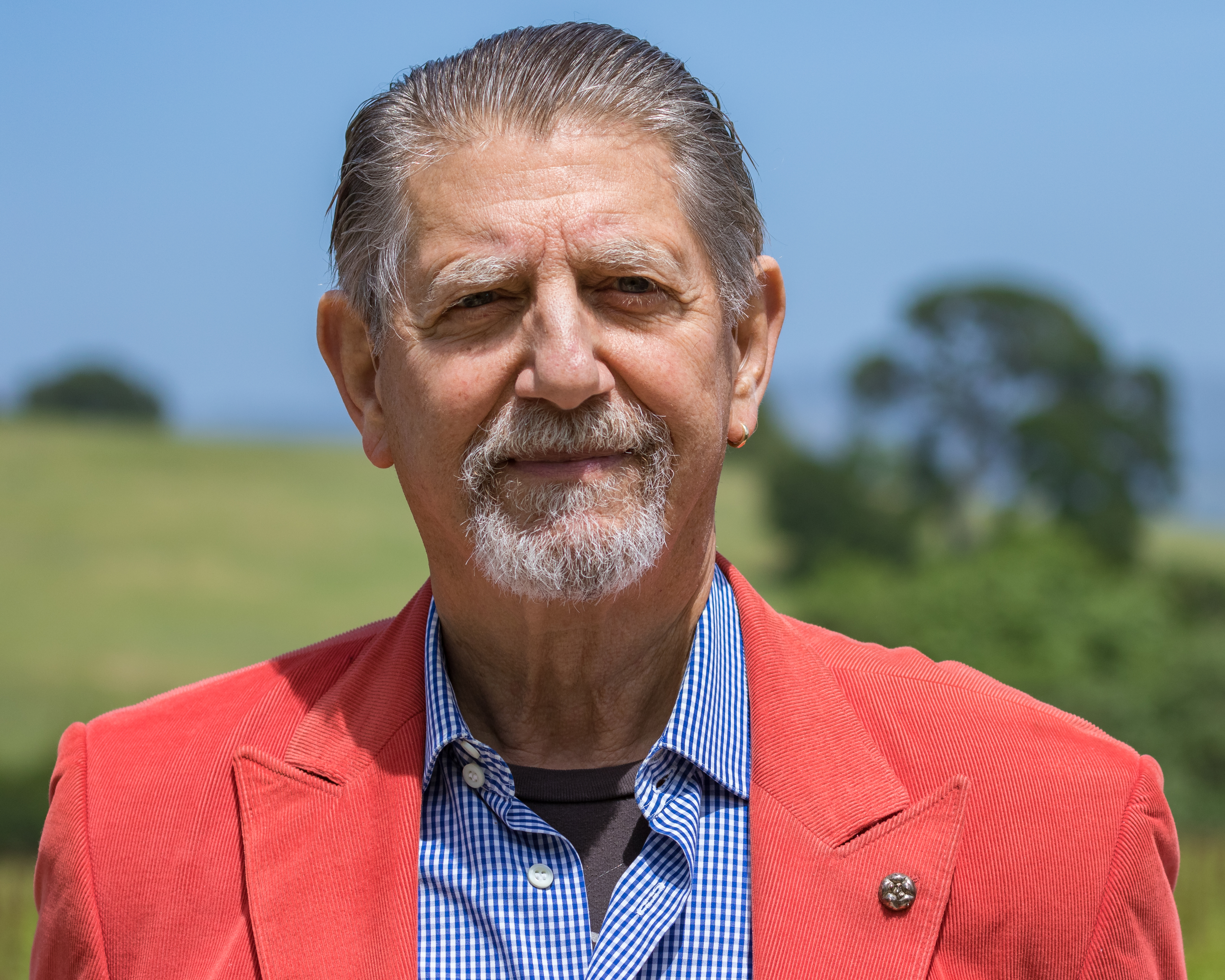 Peter Coyote at Durell Vineyard, Sonoma, on the occasion of 10 Years Project Coyote, April 2019